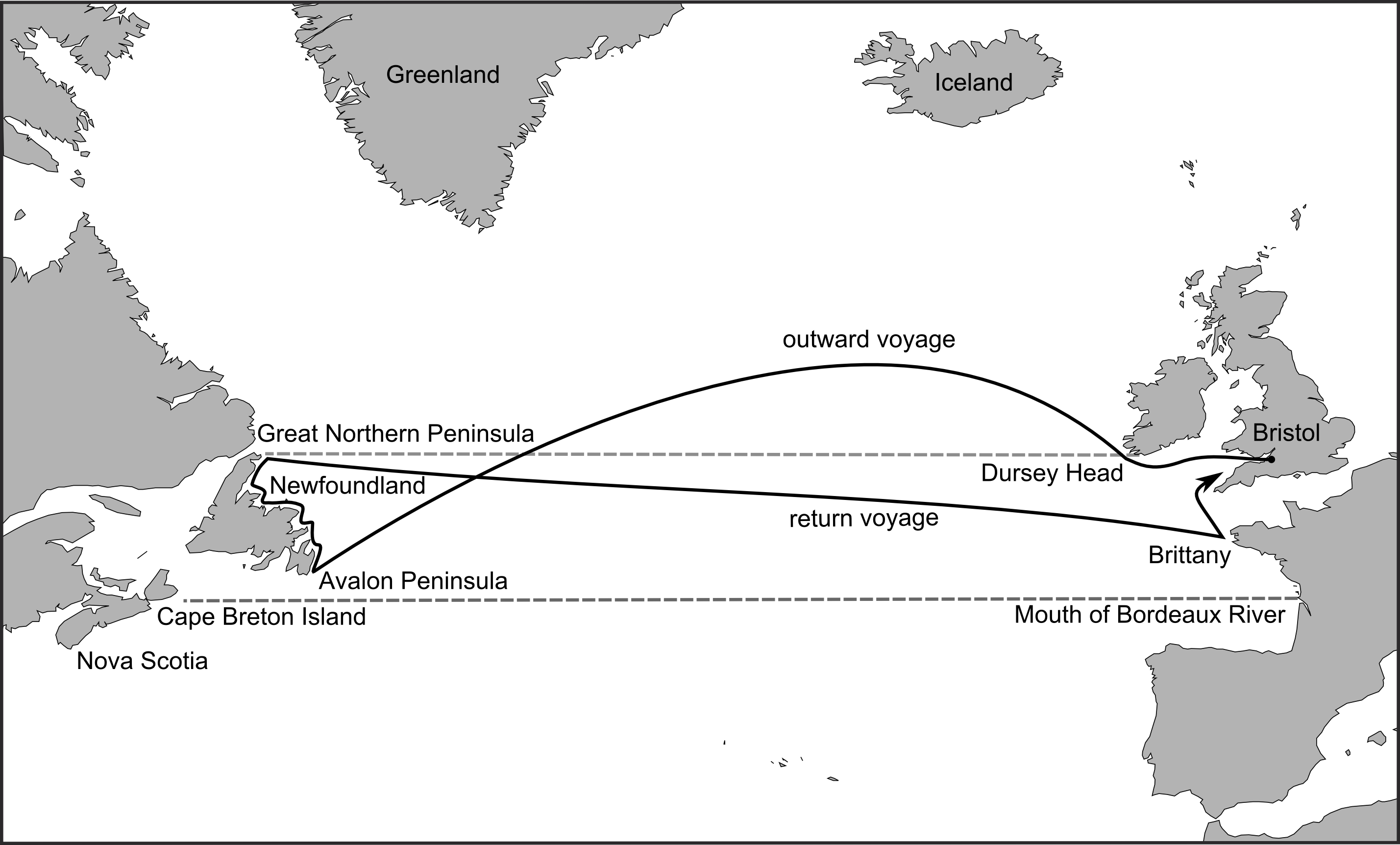 Route of John Cabot's 1497 voyage on the Matthew of Bristol posited by Jones and Condon: Evan T. Jones and Margaret M. Condon, Cabot and Bristol's Age of Discovery: The Bristol Discovery Voyages 1480-1508 (University of Bristol, Nov. 2016), fig. 8, p. 43.